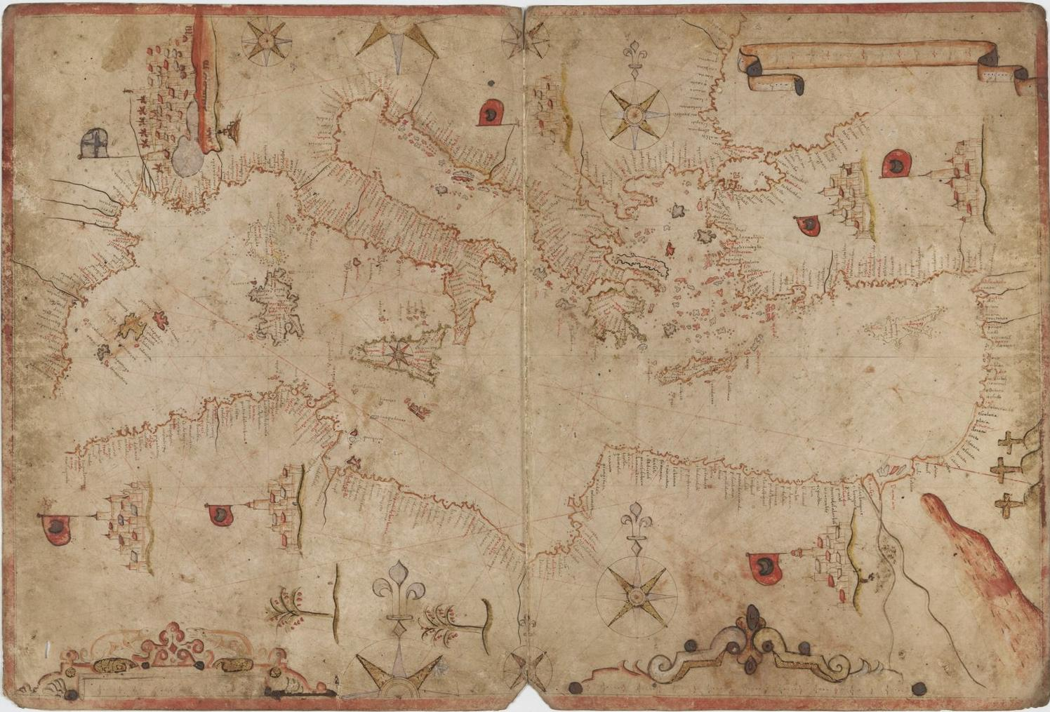 Occitan Nautical Chart (made in 1630)